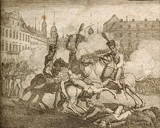 Death of Ferdinand von Schill in Stralsund.